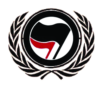 Antifa London Flag